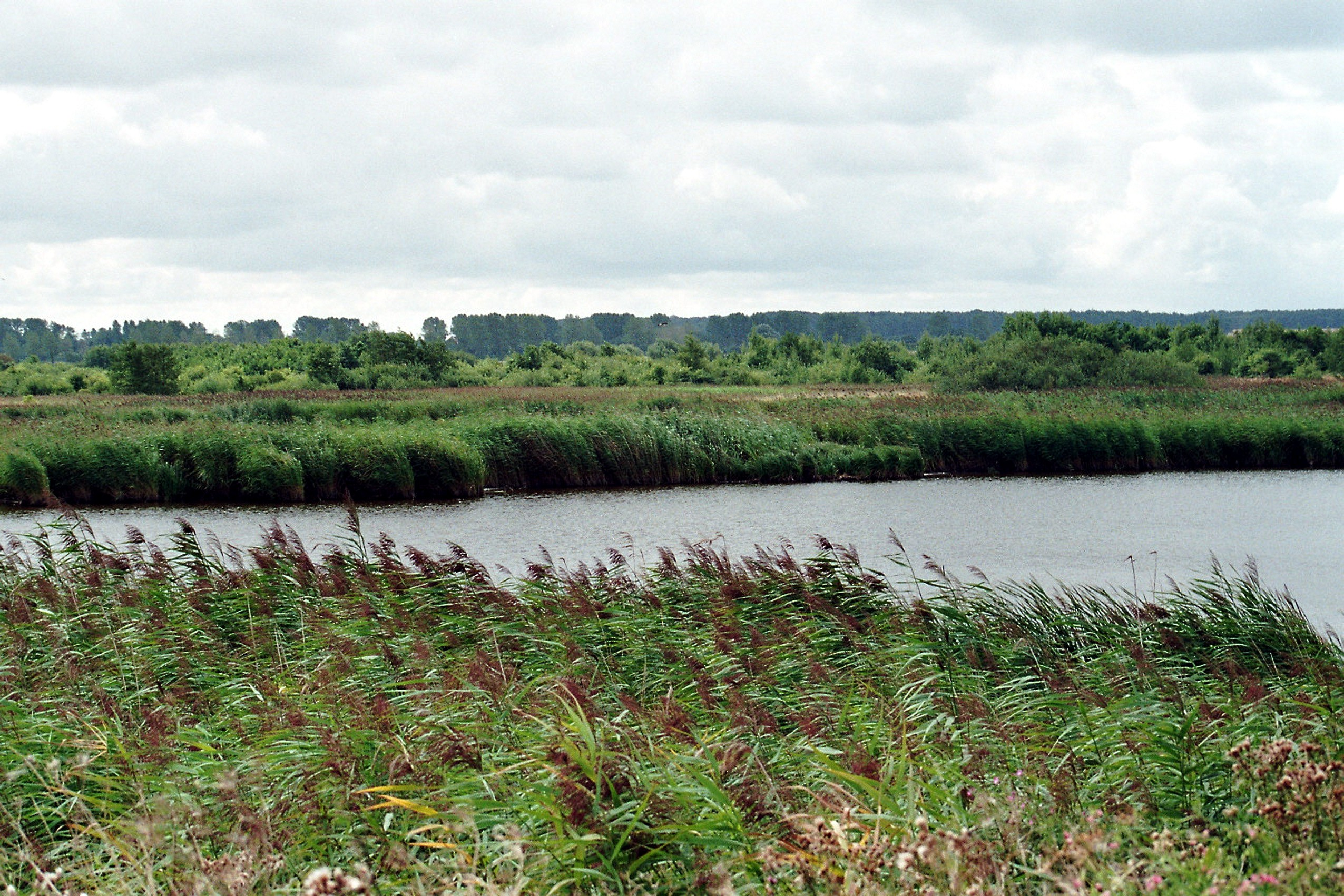 "Strandseelandschaft bei Schmoel" nature reserve, Stakendorf, Schleswig-Holstein, Germany